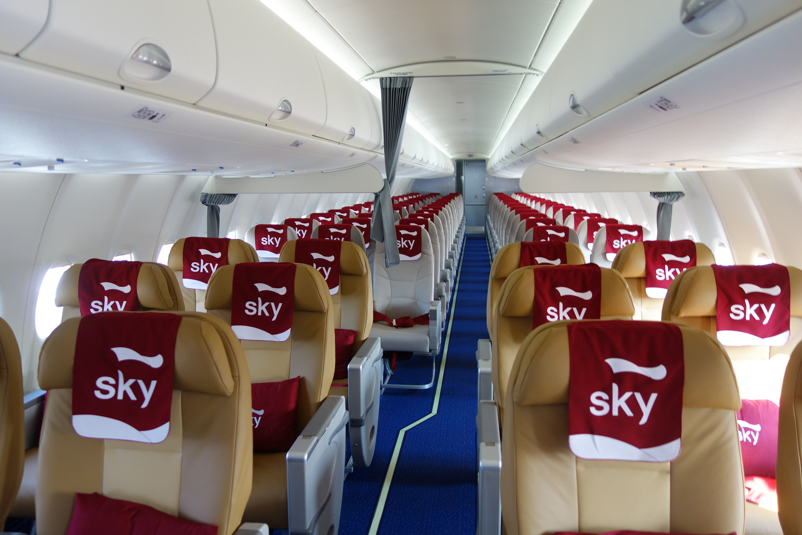 A view of cabin of the second SSJ 100 arrived to Indonesia to be owned by Sky Aviation (Jakarta, August 23, 2013)